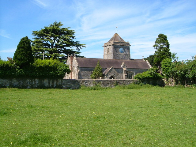 St Nicholas' parish church, Whitchurch, Somerset, seen from the south